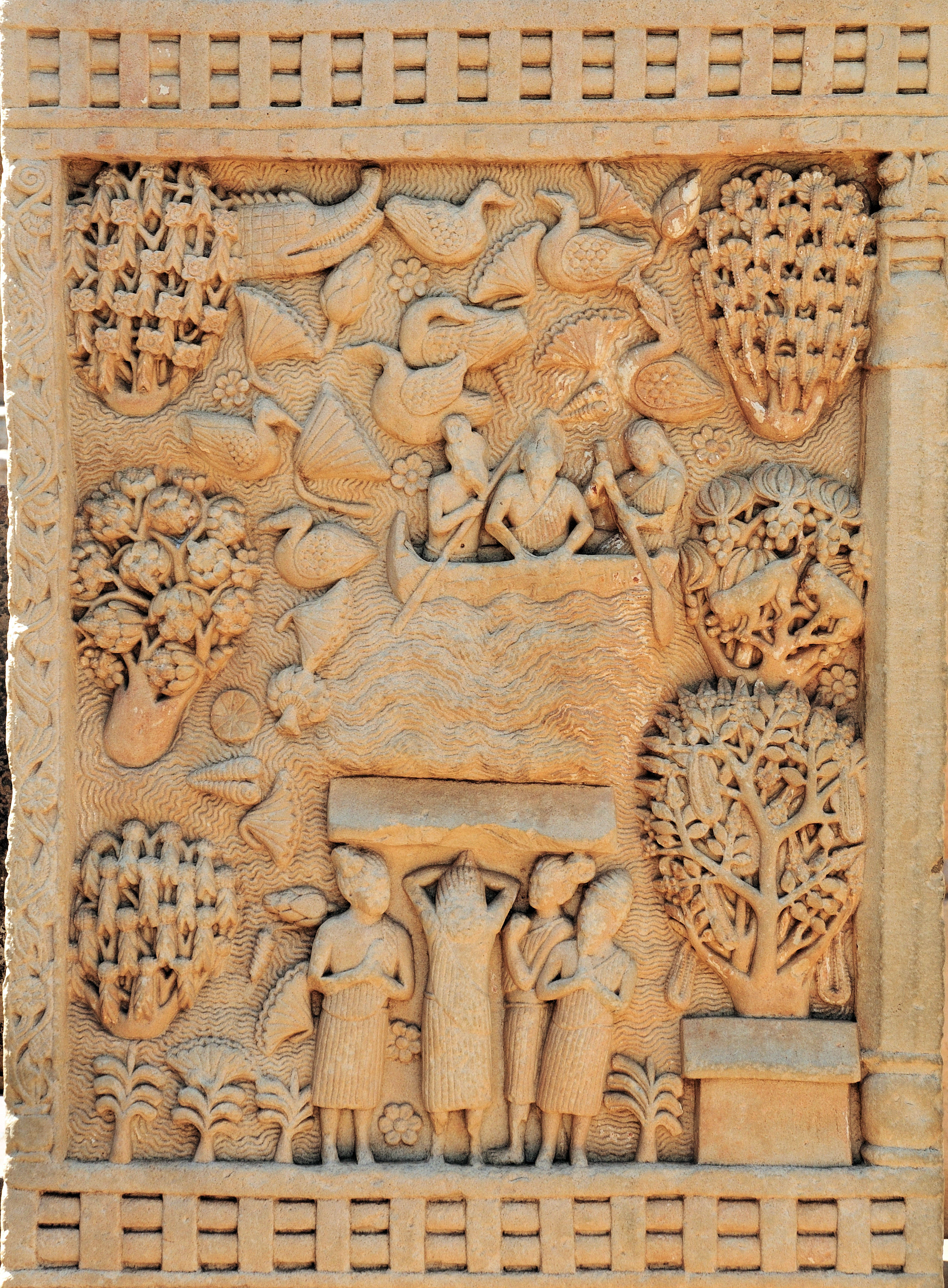 Miracle of the Buddha walking on a River - East Face - South Pillar - East Gateway - Stupa 1 - Sanchi